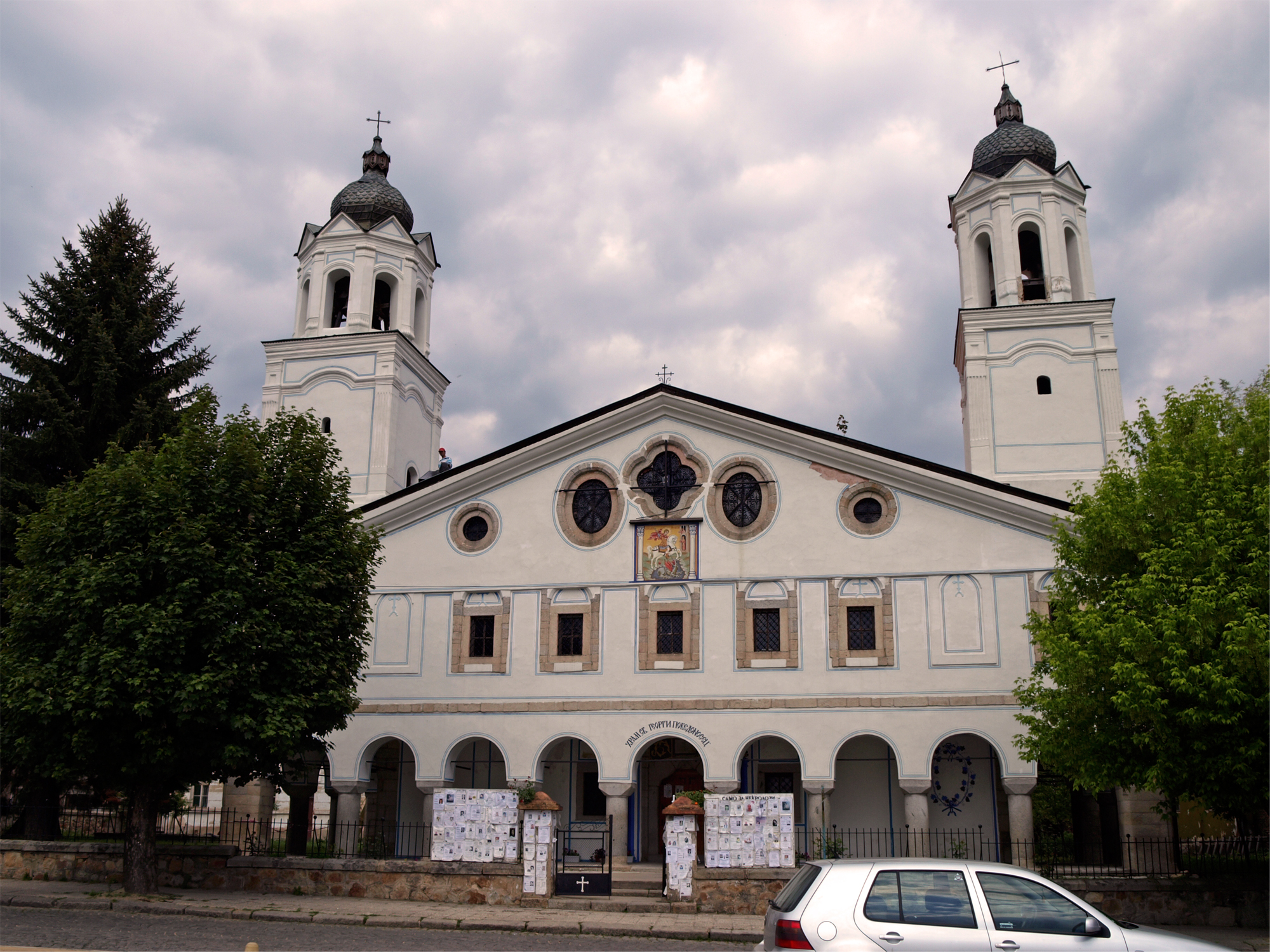 Saint George church in Panagyurishte